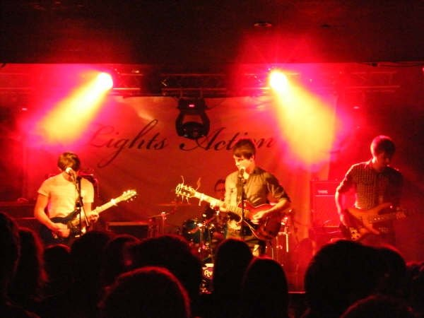 Take to the Seas live at O2 academy